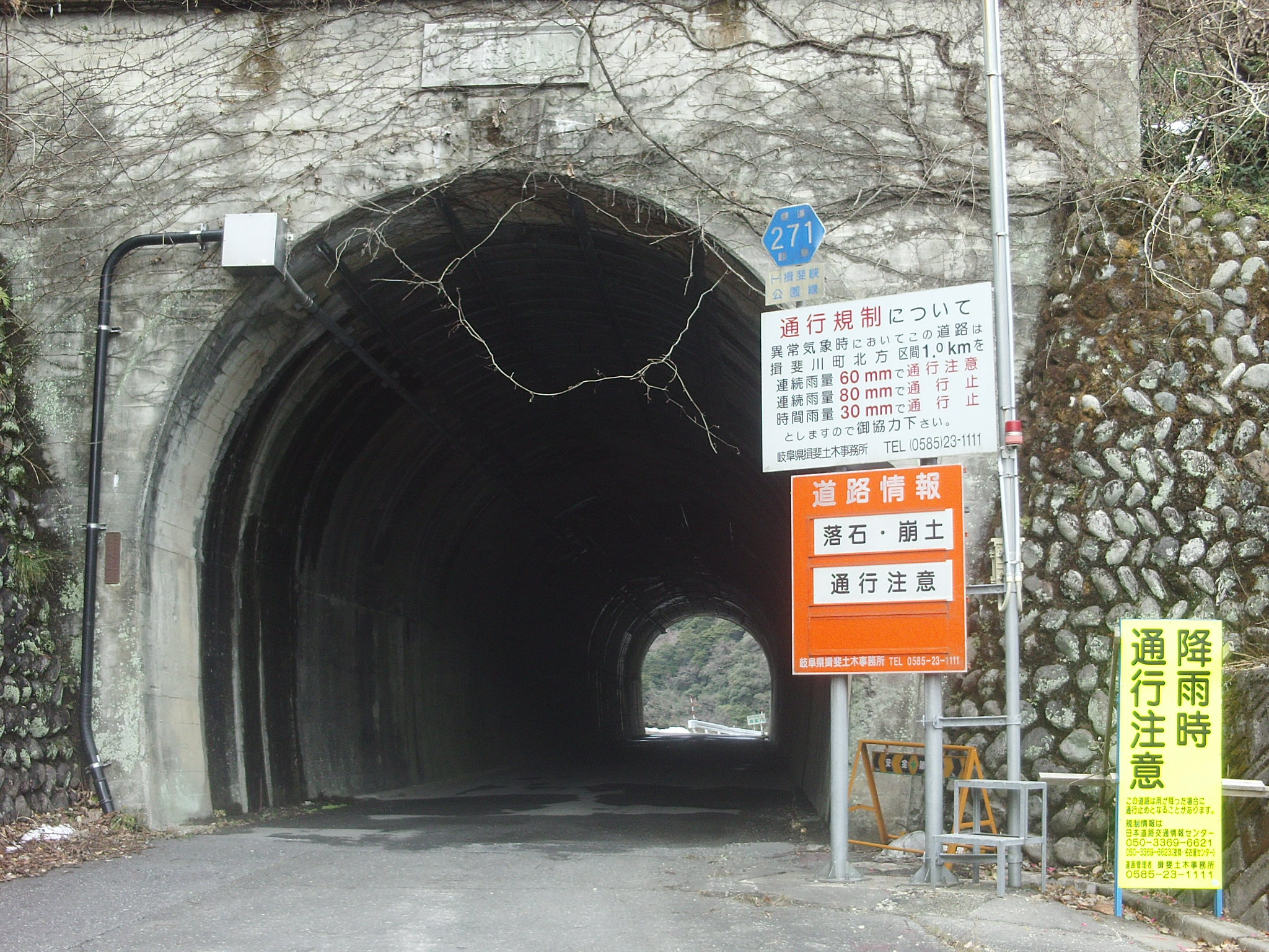 Gifu prefectural road No.271 in Kitagata, Ibigawa town, Ibi-gun, Gifu. Kitayama tunnel.